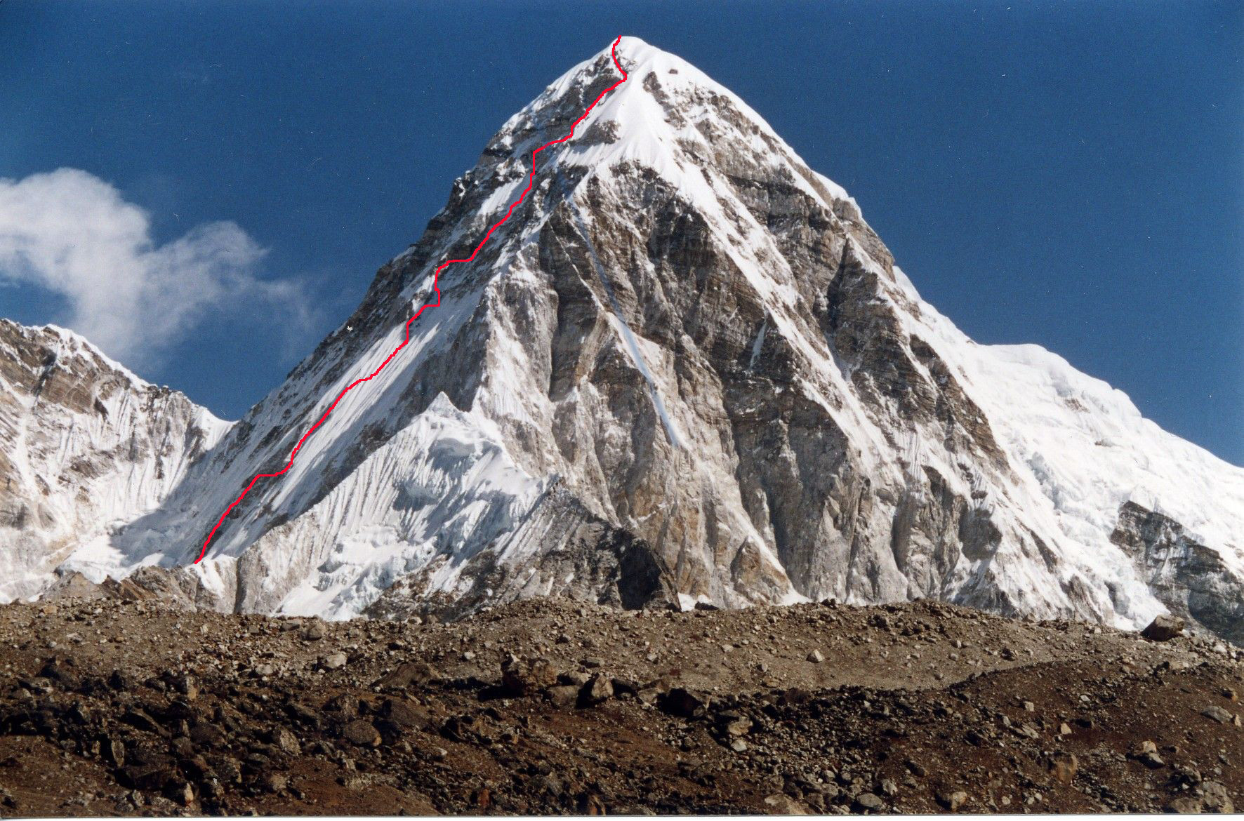 sketch of the pumori westface route taken first by ueli buehler and ueli steck in 2001. drawn from descriptions and sketches from steck's website